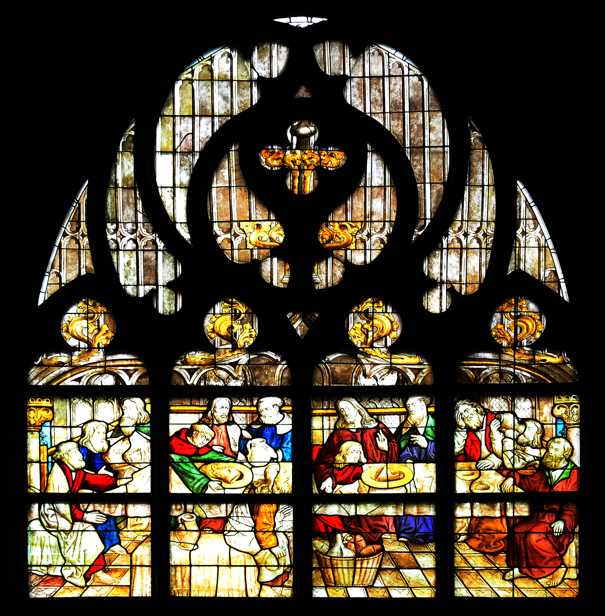 Westphalian Last Supper,with pork, Westphalian bread and brandy. church St. Maria zur Wiese, Soest, Germany This image shows a heritage building in Germany, located in the North Rhine-Westphalian city Soest.